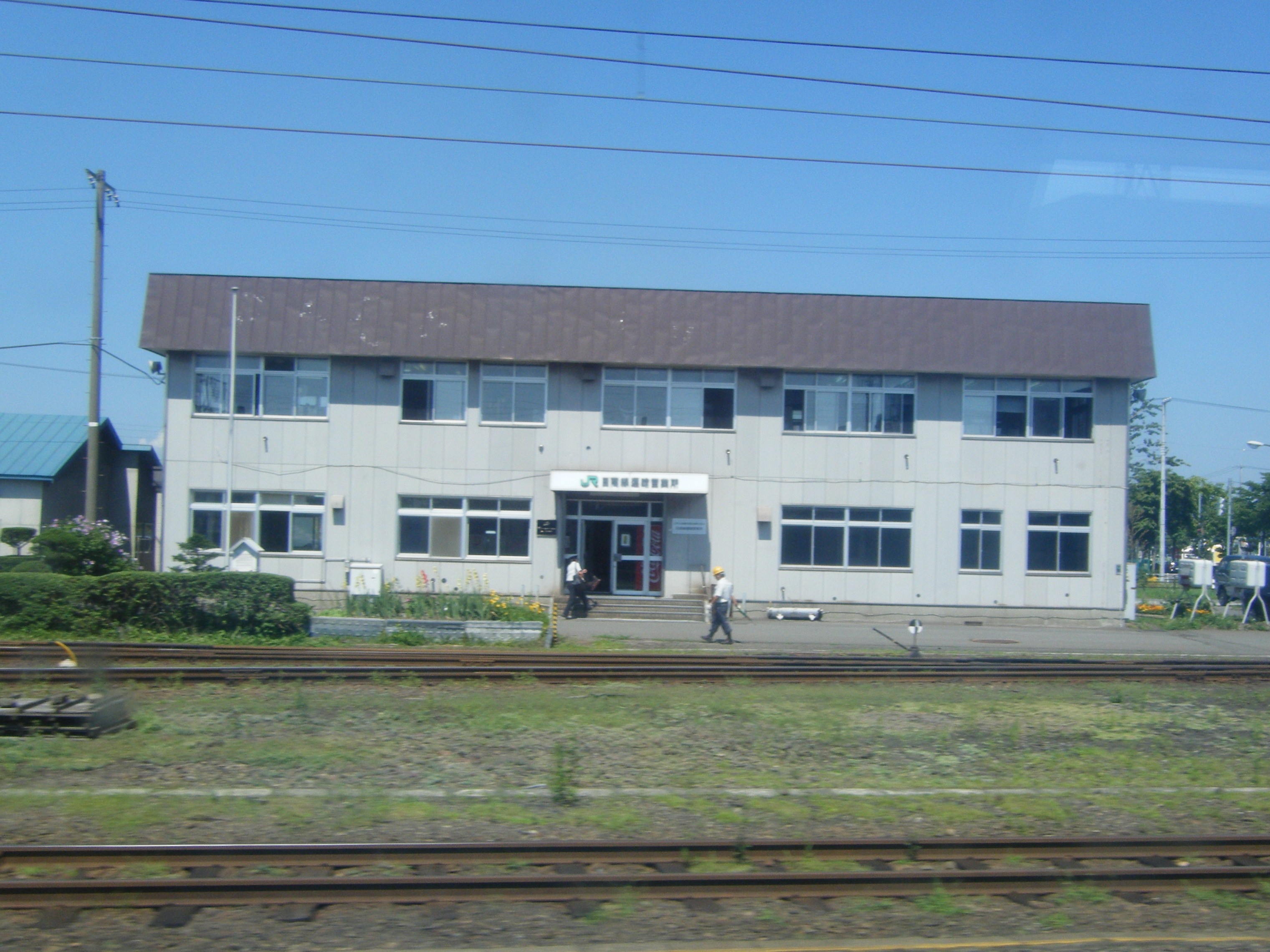 JR Hokkaido Hidaka Unyu Eigyosyo (Iwamizawa Rail Yard), in Tomakomai City, Hokkaido